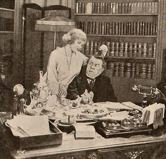 Still from the American comedy film Babs (1920) (also known as Bab's Candidate) with Corinne Griffith and George Fawcett, on page 4974 of the June 19, 1920 Motion Picture News.